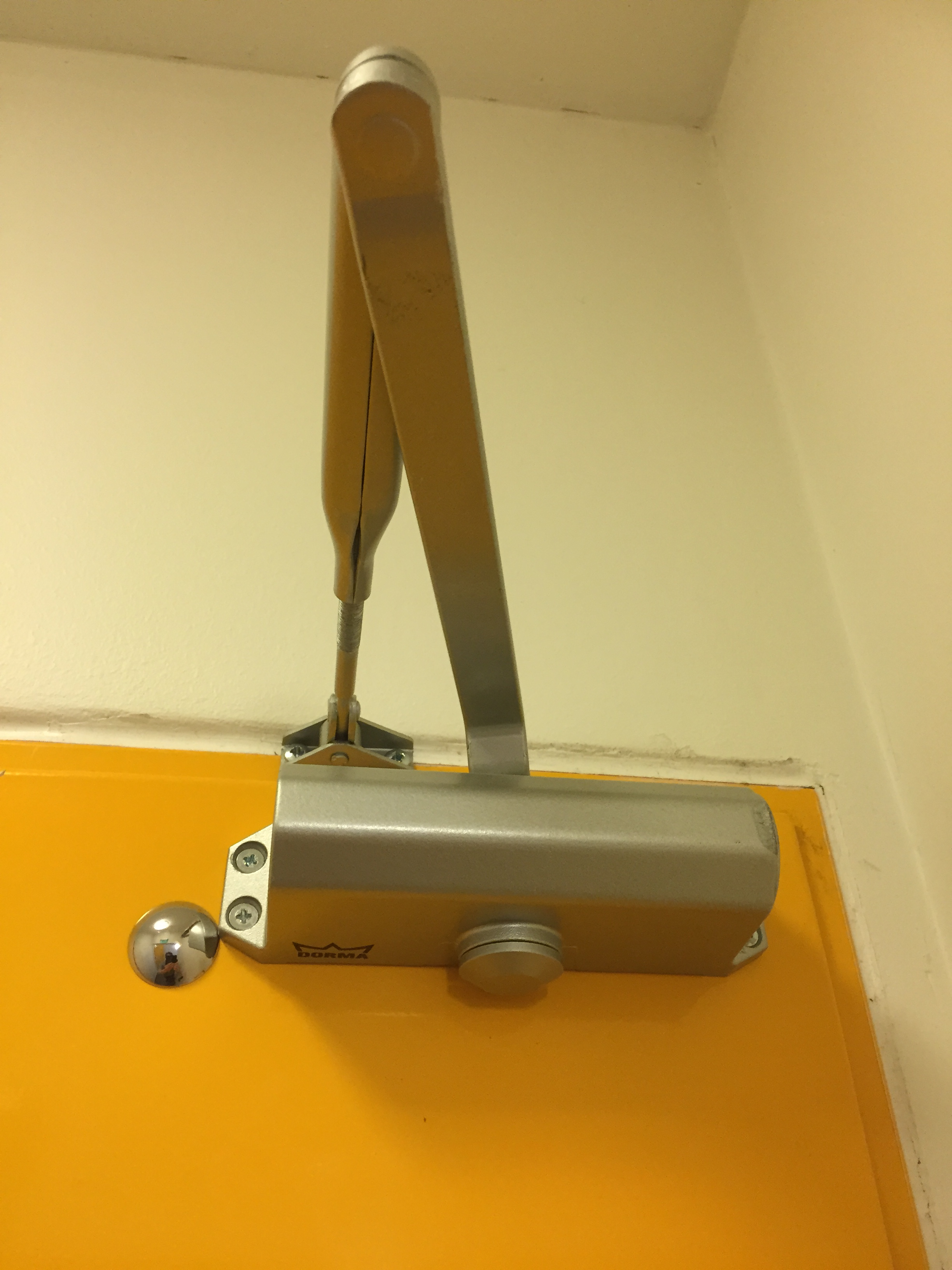 Door closer